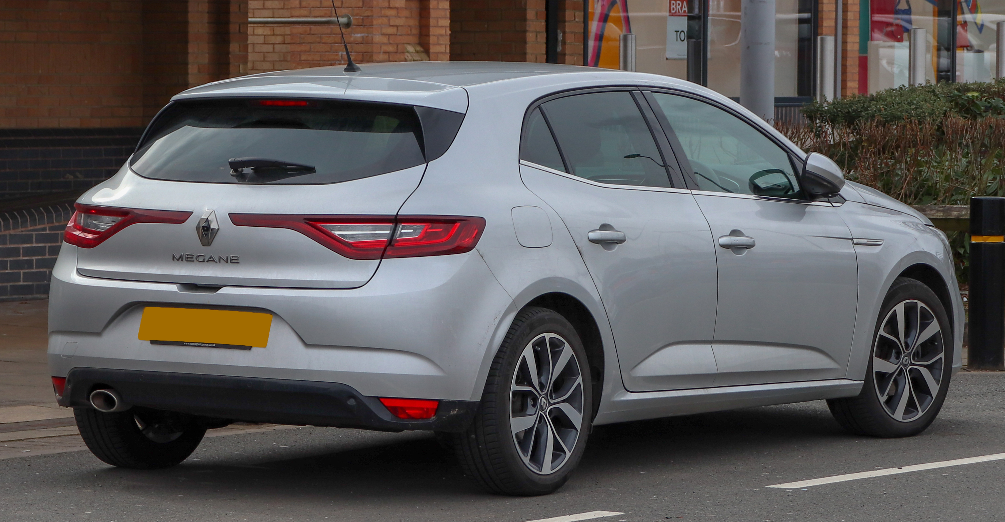 2017 Renault Megane Dynamique S NAV DC 1.5 Rear Taken in Leamington Spa